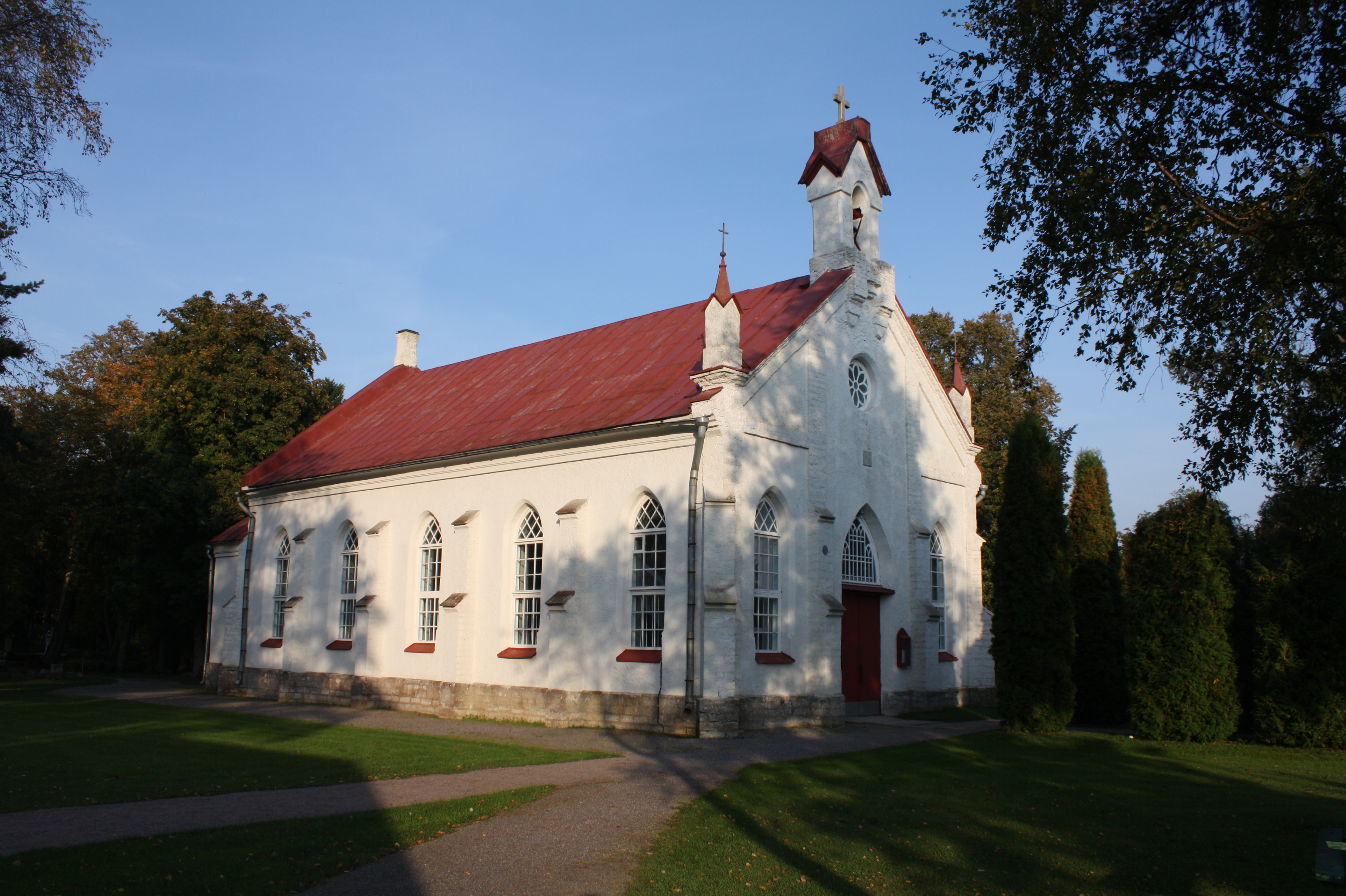 Rannamõisa Church